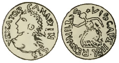 Illustration of a Vexator Canadensis token, listed in Breton's catalog as #558